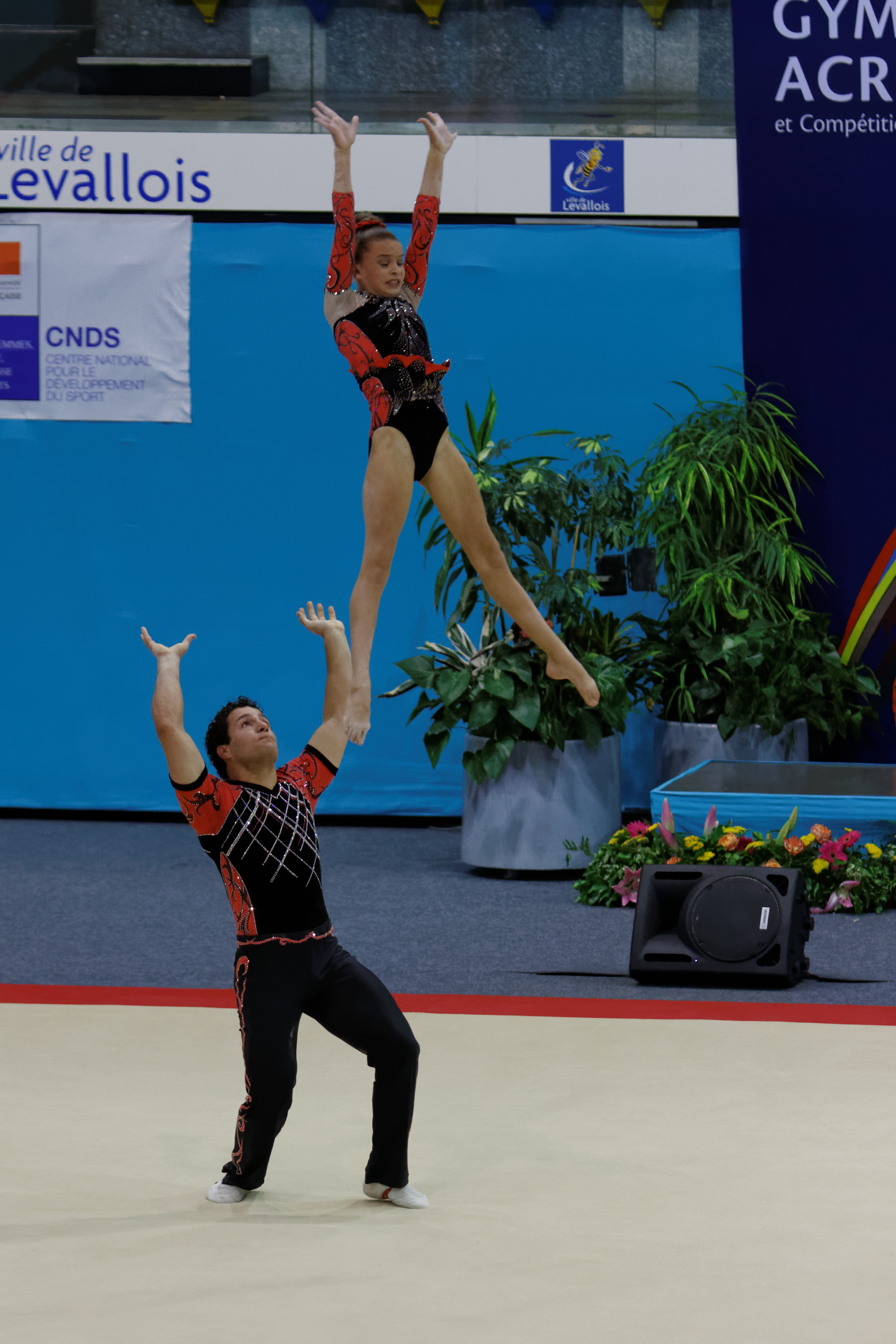 2014 Acrobatic Gymnastics World Championships, 10th-12 July, Levallois-Perret, France. Finals: mixed pair. USA.